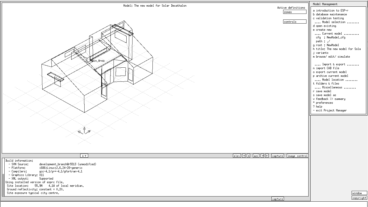 A screen shot of the main ESP-r menu.